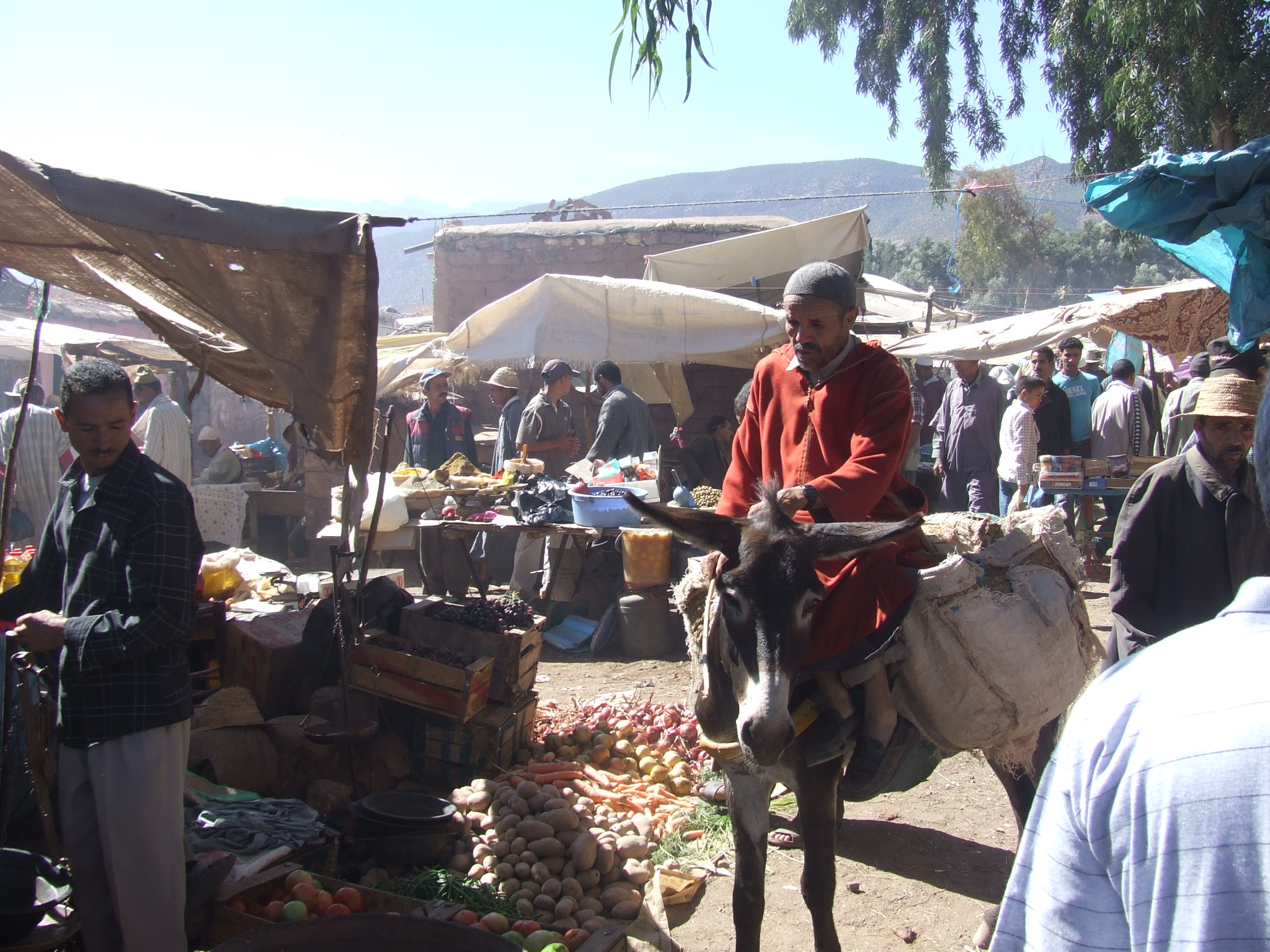 The Weekly Village Souk at Asni Nr Marakech